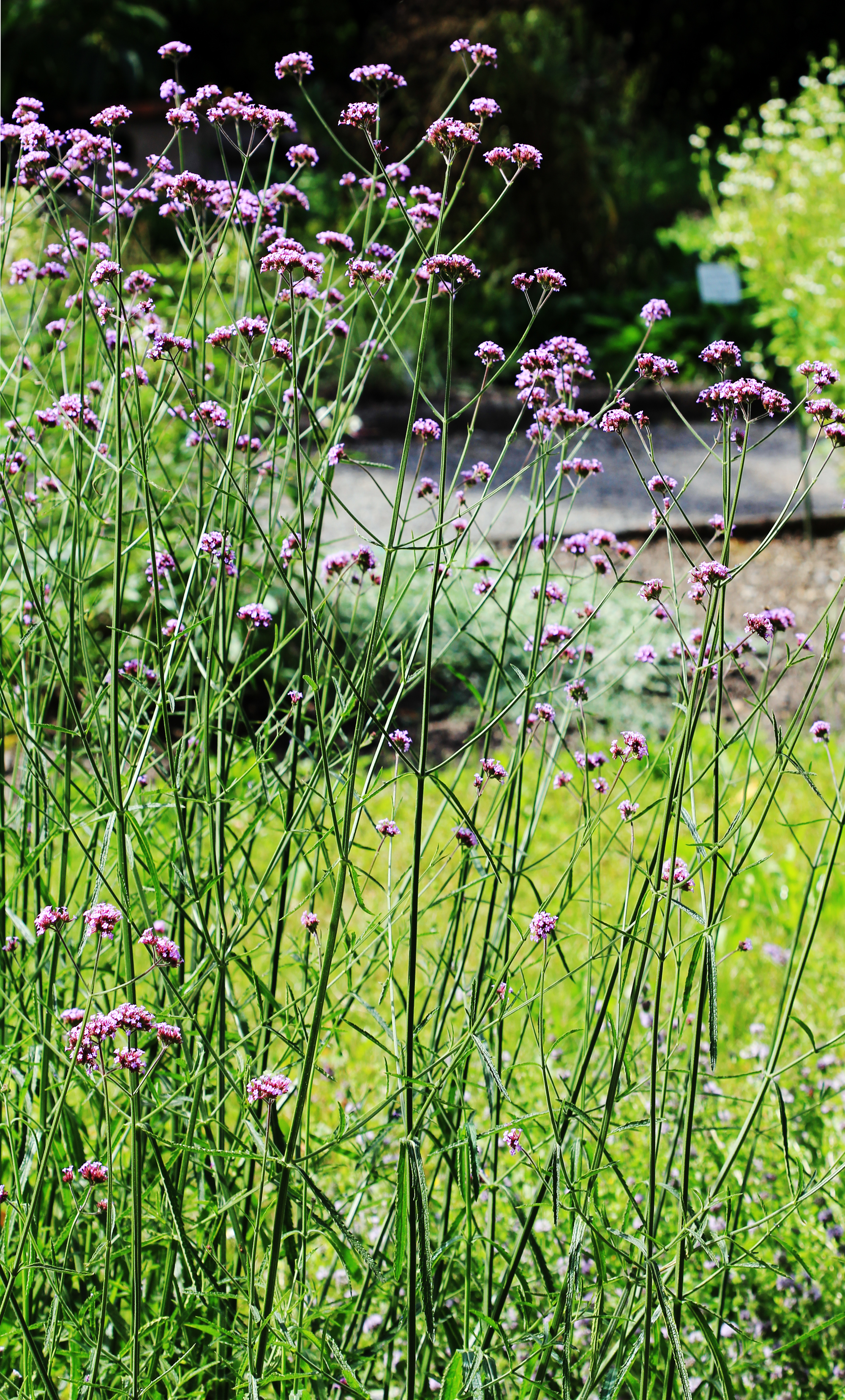 Flowering plants Verbena bonariensis, (Verbena bonariensis) from the Botanical Gardens of Charles University, Prague, Czech Republic